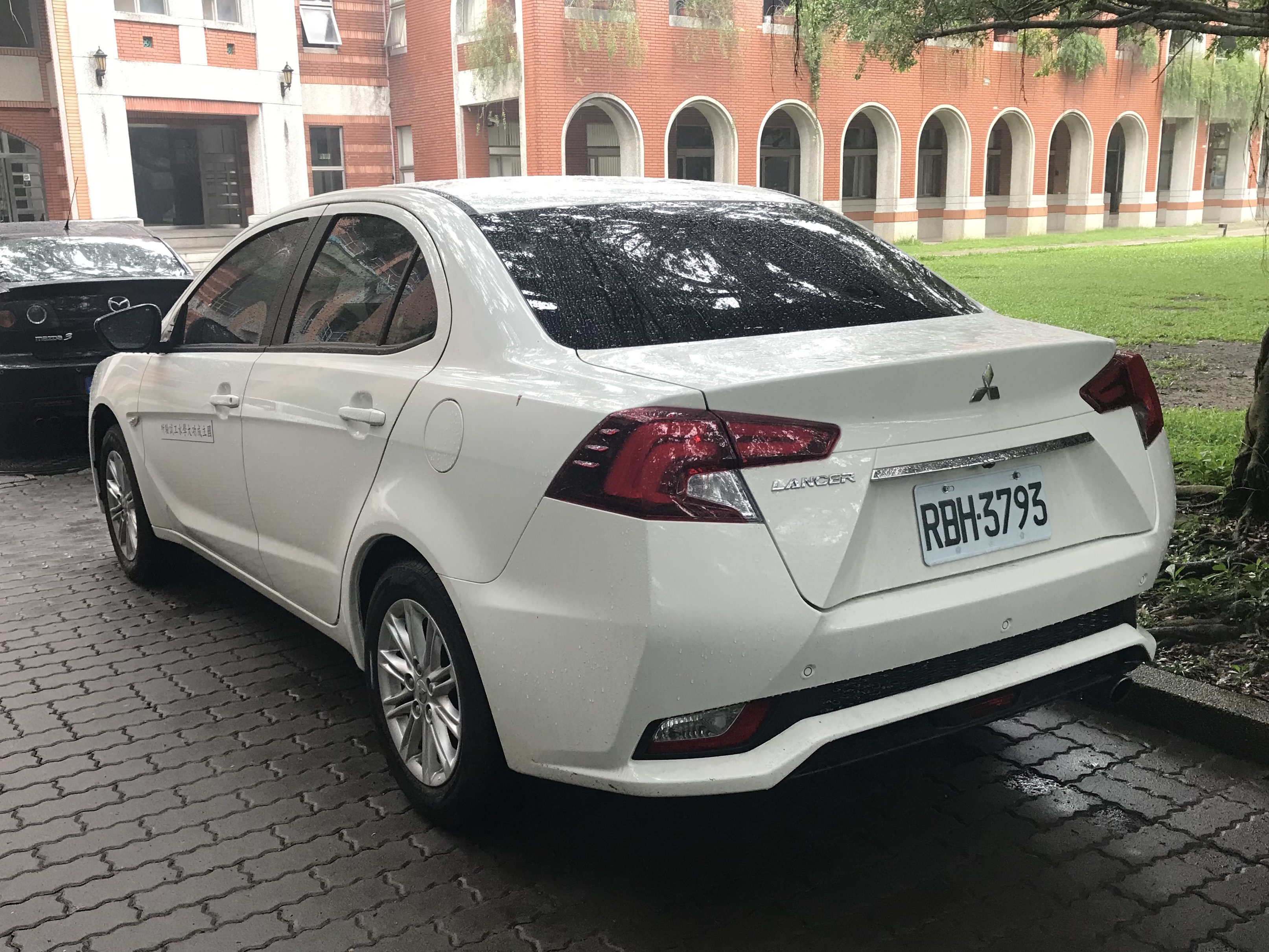 Mitsubishi Lancer RBH-3793 of Tainan Hydraulics Laboratory, National Cheng Kung University.